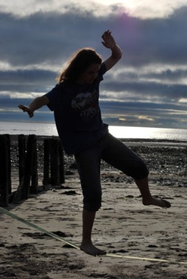 slacklining